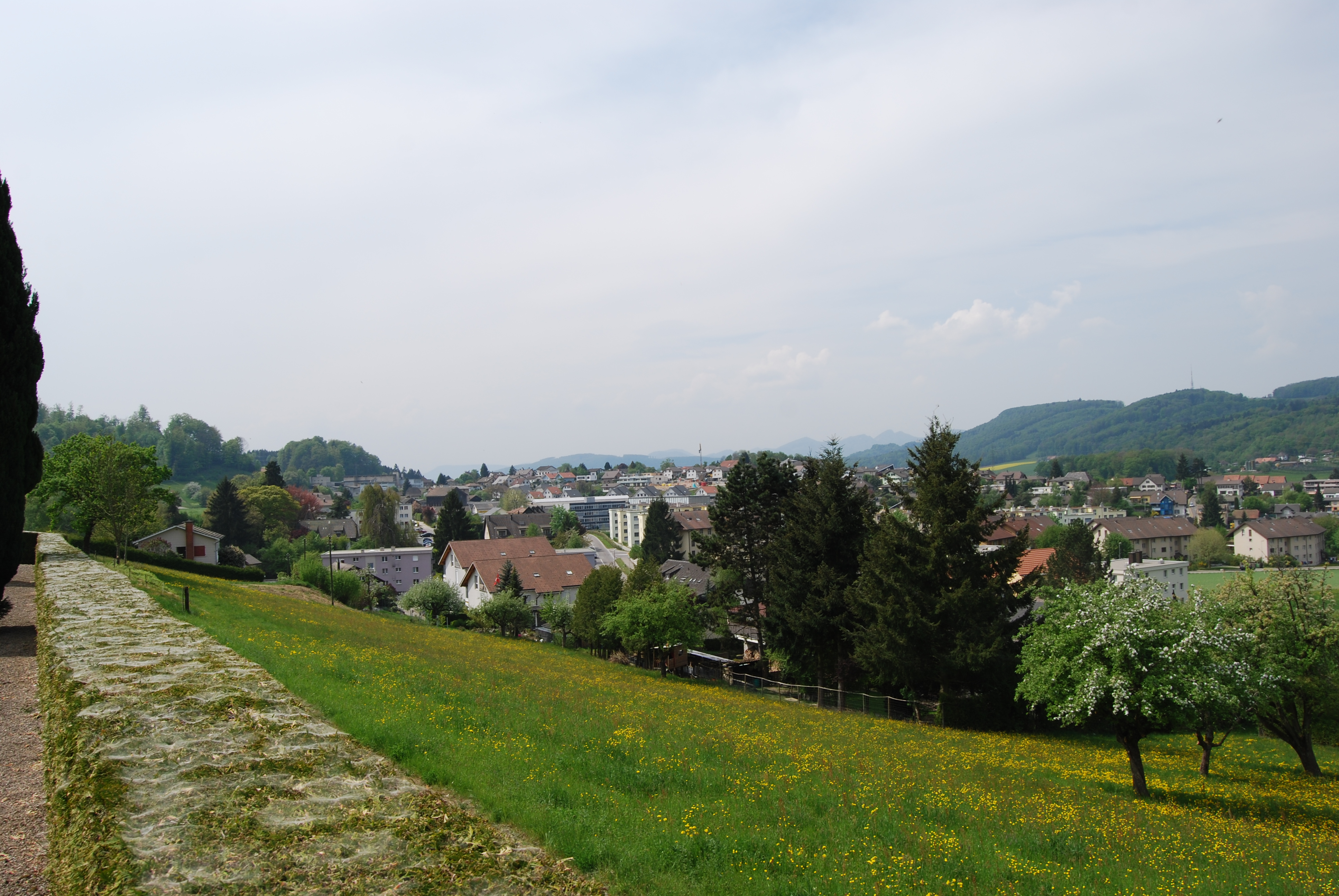 Safenwil, canton of Aargau, SwitzerlandEsperanto: Safenwil, Kantono Argovio, Svislando